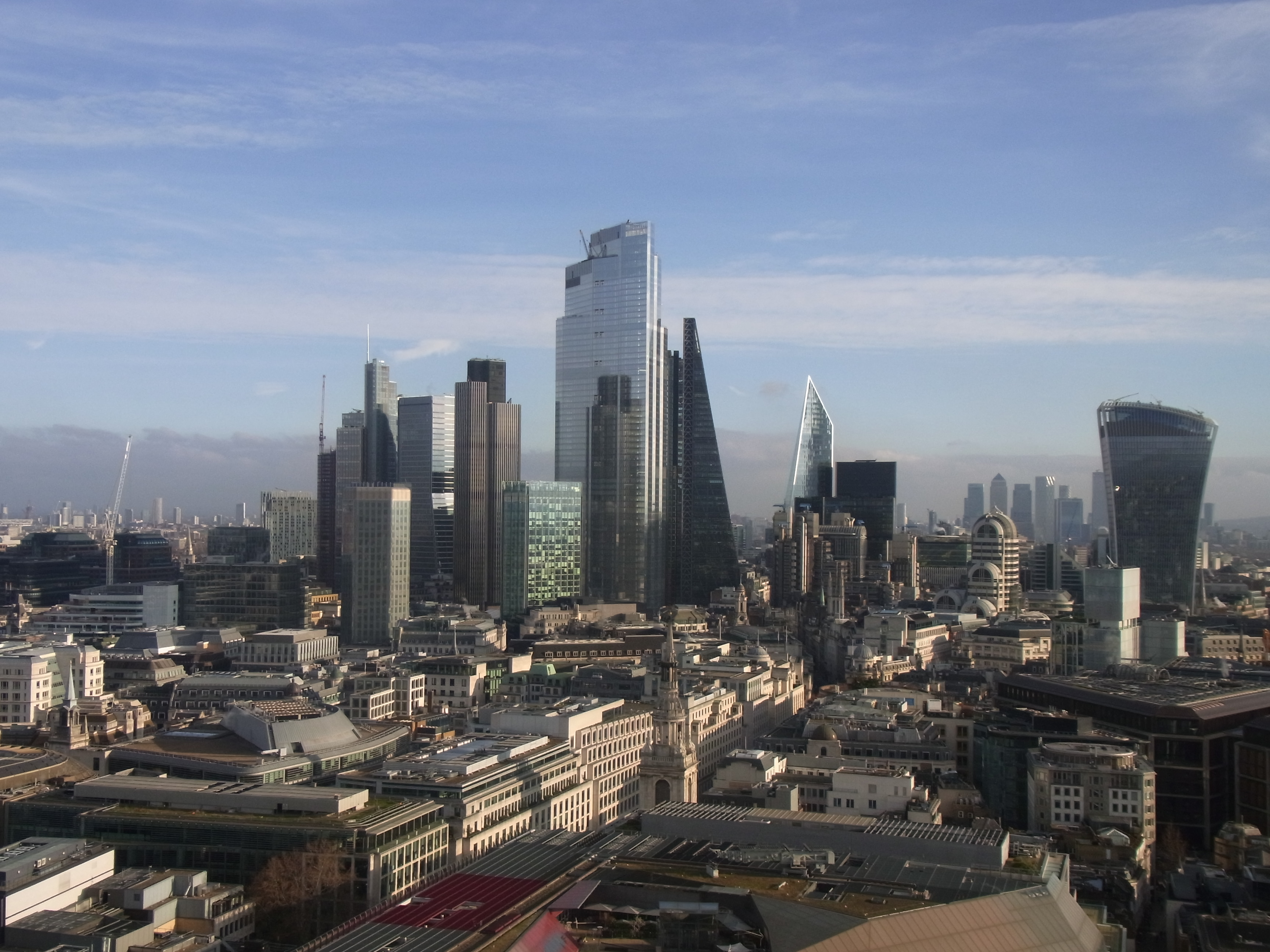 City of London skyline 27 December 2019